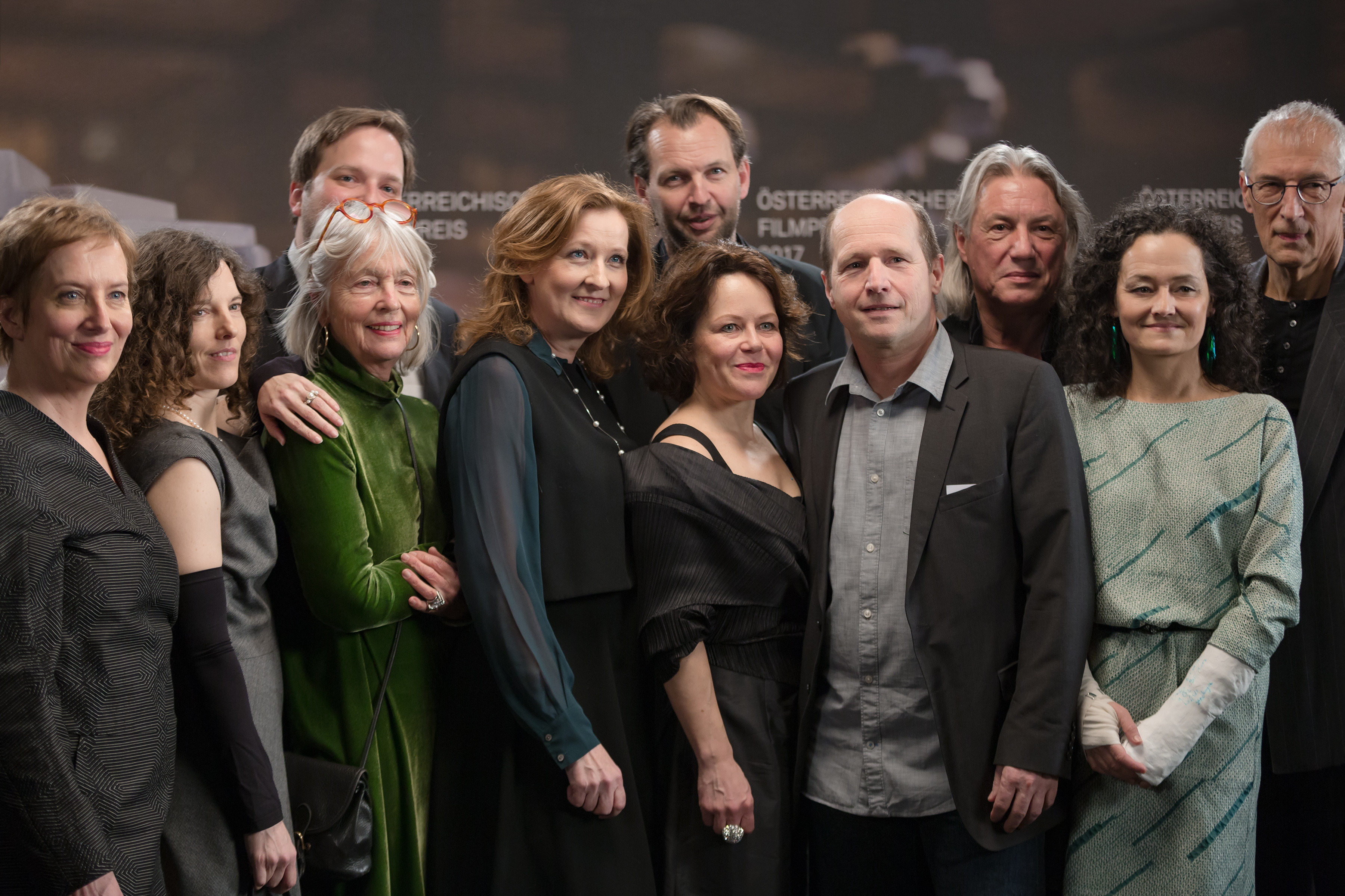 Parts of the board an the team of the Austrian Film Academy, ltr.: Marlene Ropac, Veronika Hlawatsch, Alexander Glehr, Birgit Hutter, Ursula Wolschlager, Martin Gschlacht, Eva Spreitzhofer, Gerhard Ertl, Harald Sicheritz, Barbara Lindner and Josef Aichholzer at the Austrian Film Awards 2017 (Rathaus, Vienna,Austria).